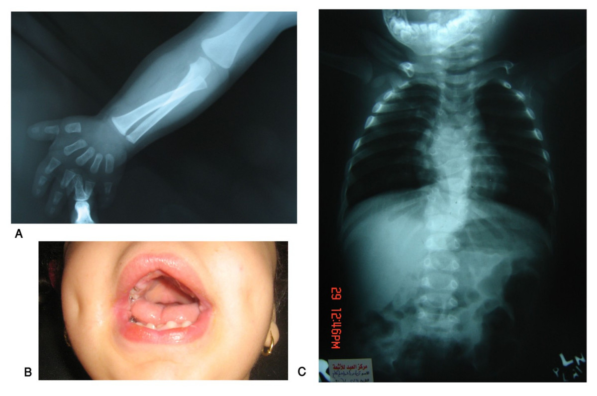 Autosomal recessive Robinow syndrome. X-ray upper limbs and hands showing mesomelic shortening and brachydactyly (A), gingival hyperplasia (B) and X-ray vertebrae showing hemivertebrae and vertebral fusion. (Limb Malformations & Skeletal Dysplasia Clinic, MSU, NRC).